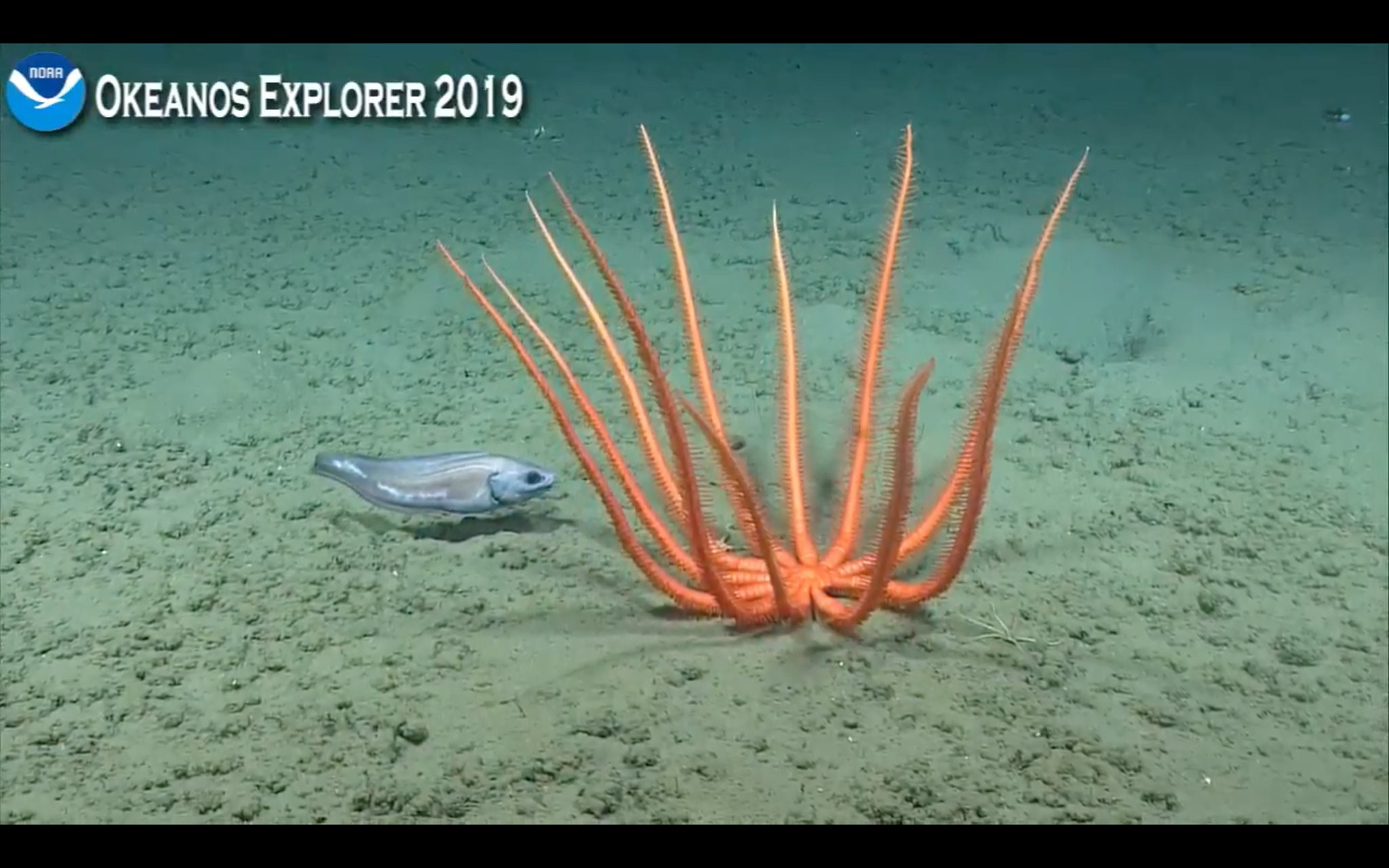 A sea star of the family Brisingidae in feeding position, observed in the deep waters off southern USA by the Okeanos Explorer mission "Windows to the Deep 2019: Exploration of the Deep-sea Habitats of the Southeast United States".